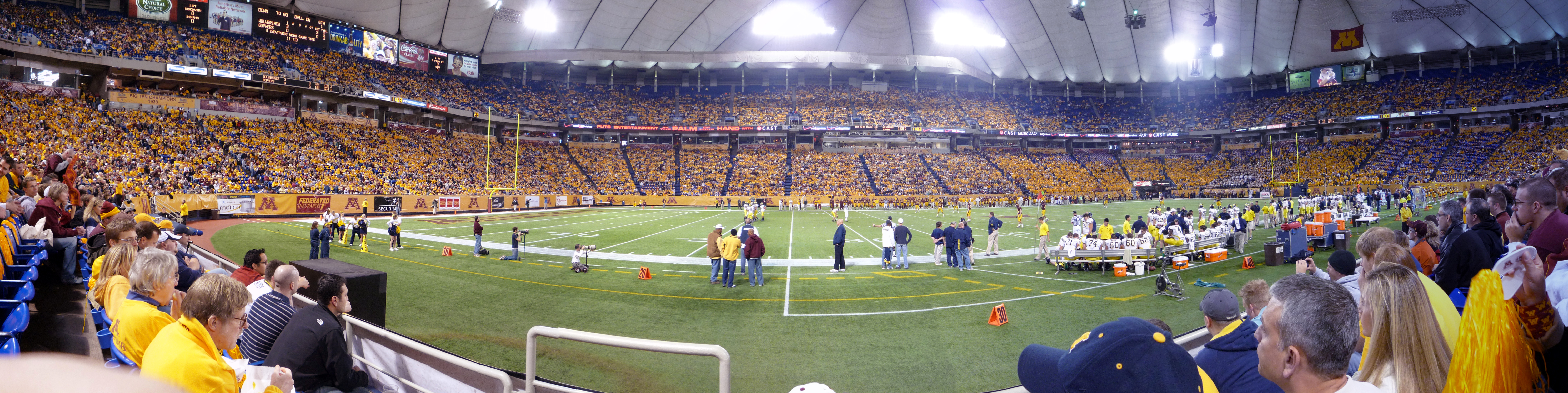 First quarter of the 91st battle for the Little Brown Jug: a college football game between the visiting Michigan Wolverines (2-7 record entering the game) and the Minnesota Golden Gophers (7-2 entering the game) at the Metrodome on November 8, 2008. Michigan would win, 29-6; as a result, the Wolverines could claim to have never lost in the Metrodome during the Gophers time there.